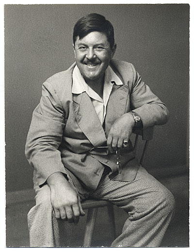 Evergood Photo- Smithsonian, Public License